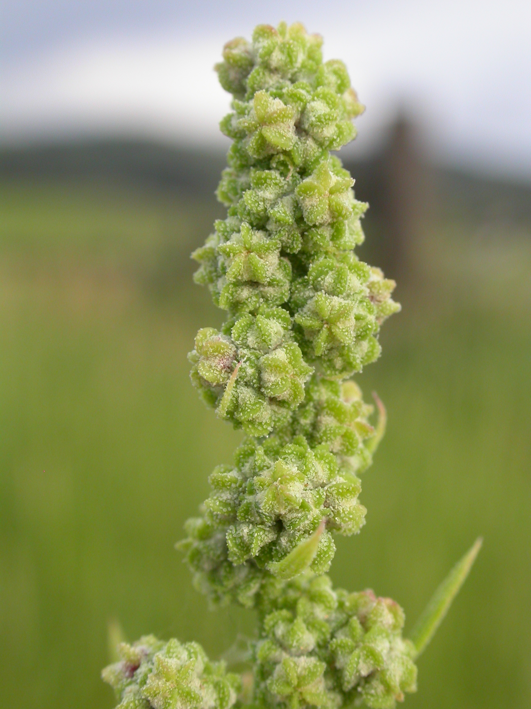 Chenopodium berlandieri Moq. - pit-seeded goosefoot